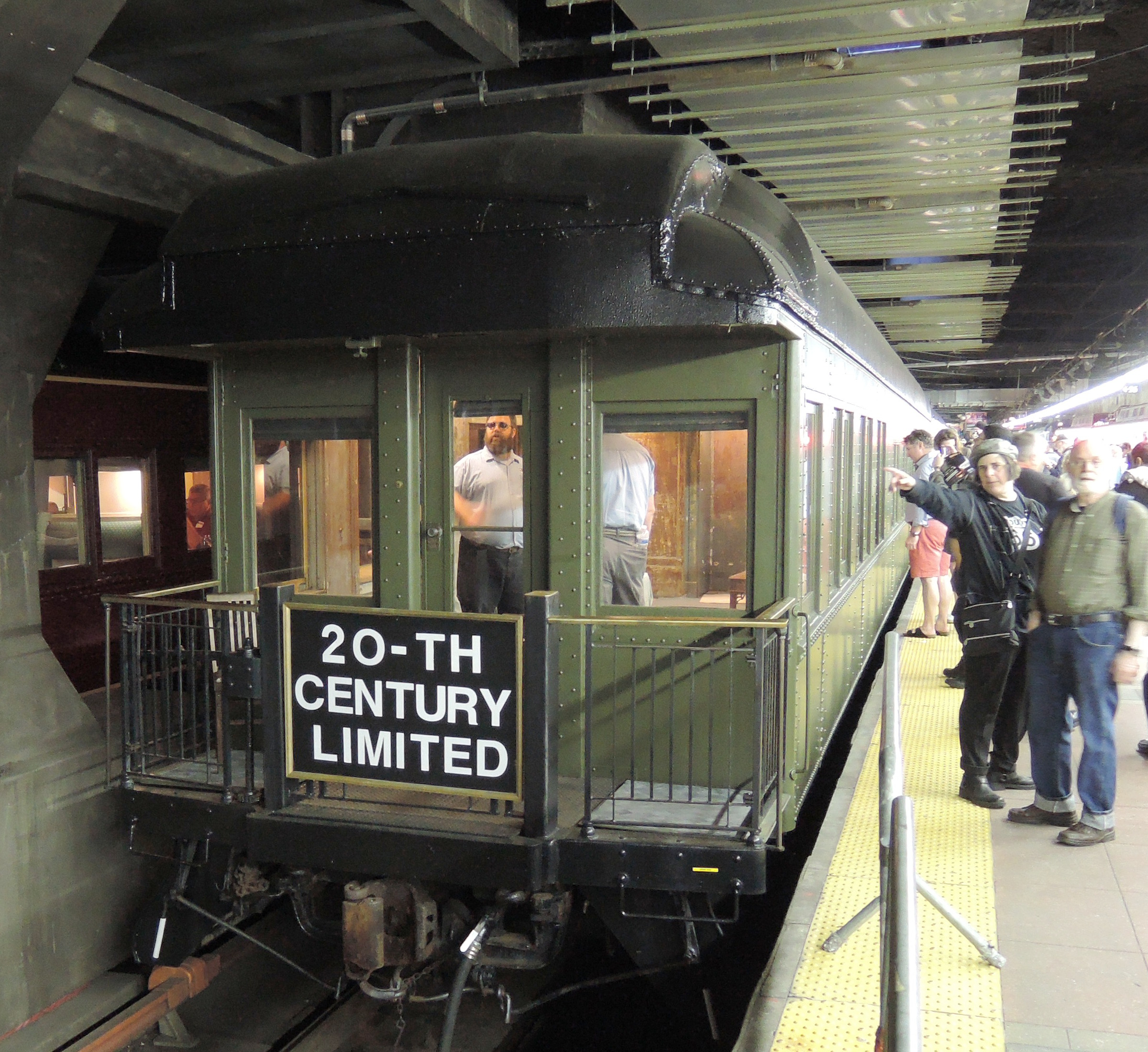 Looking southeast at coach 'Tonawanda Valley' parked at platform.